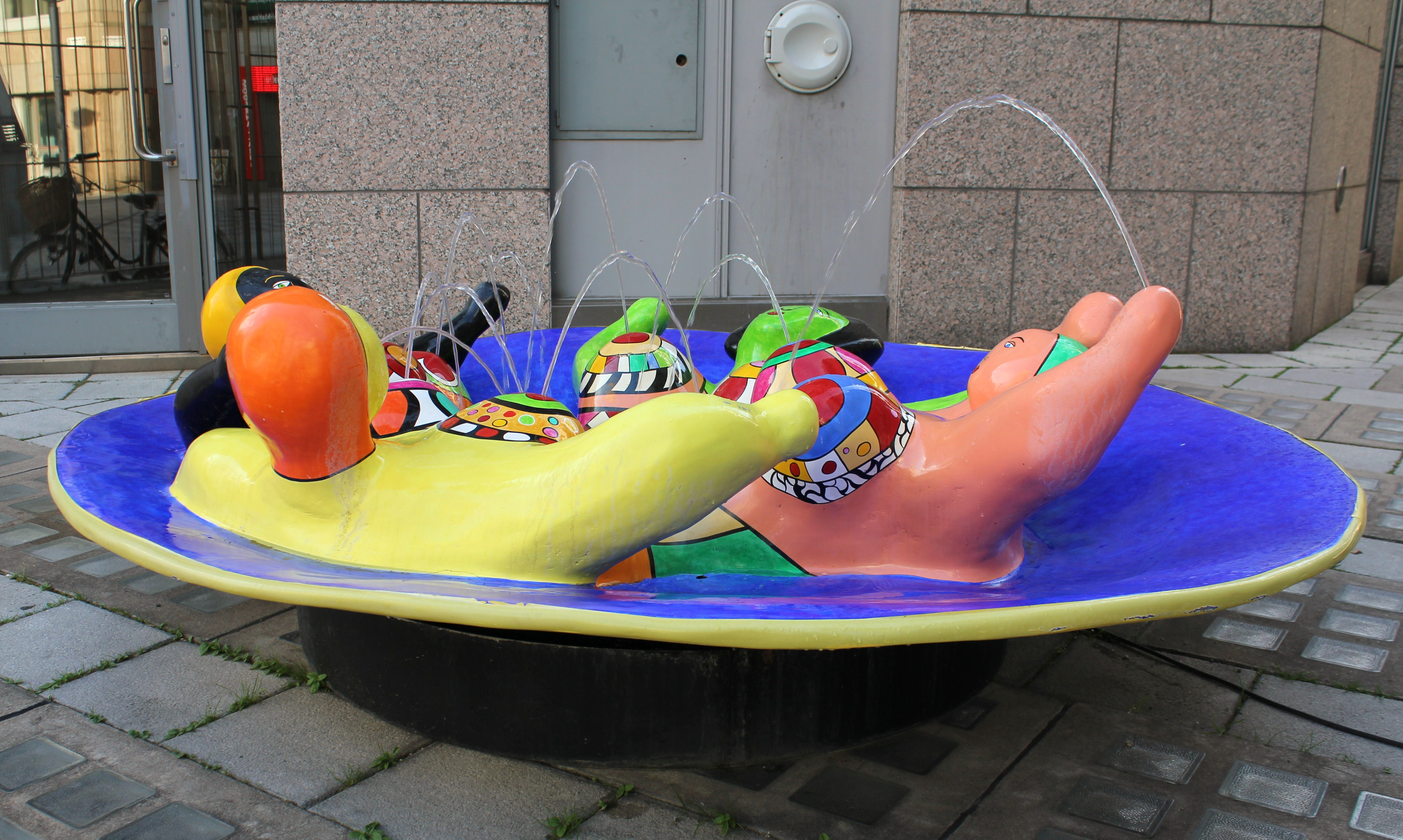 Nana, work of Niki de Saint Phalle, Södermalm, Stockholm.